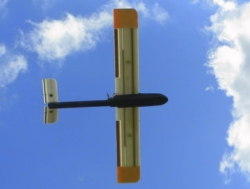 South African UAV, Observer, wildlife management and research sUAS